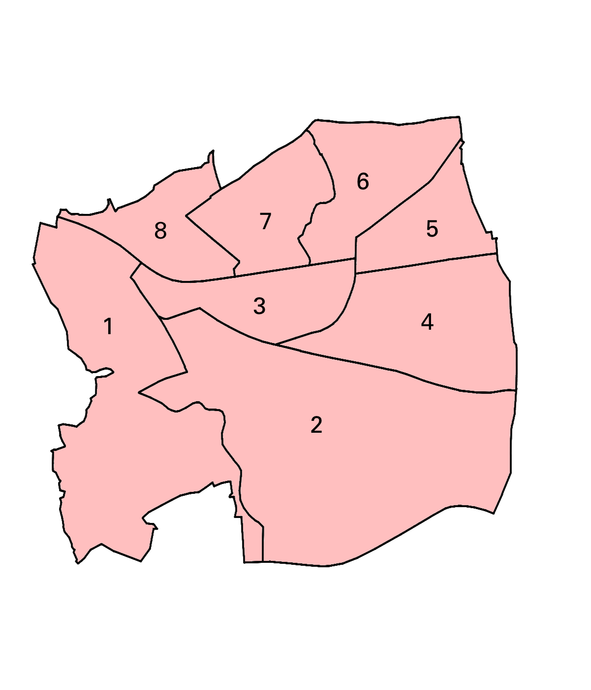 A map of the wards of the Municipal Borough of Barking, used throughout its existence (1934-65)